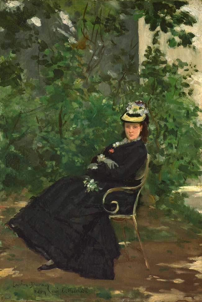 Portrait de Madame Hoschedé. Alice Hoschedé is the second wife of Claude Monet and mother of Blanche Hoschedé Monet.